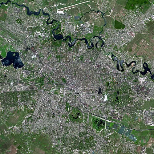 Bucharest by SPOT Satellite